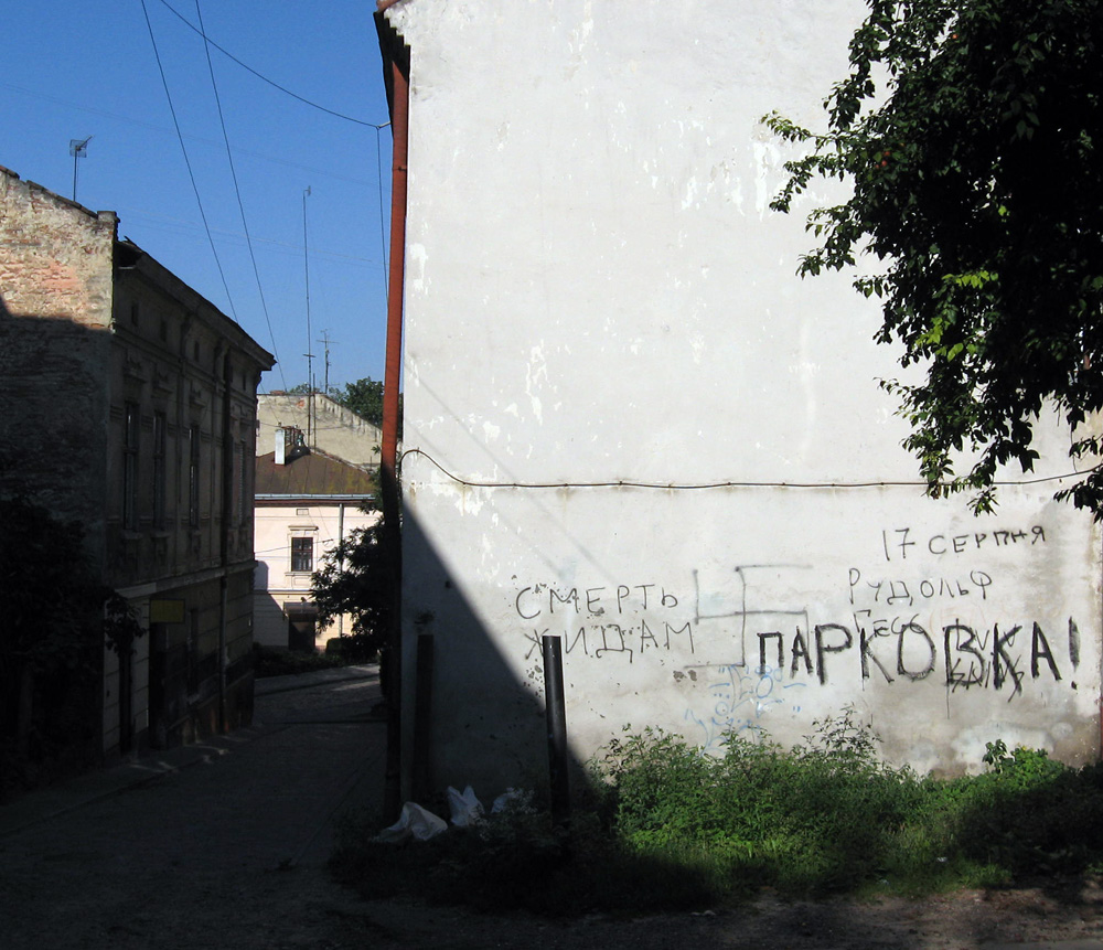 "Death to Jews" graffiti in Lviv, Ukraine